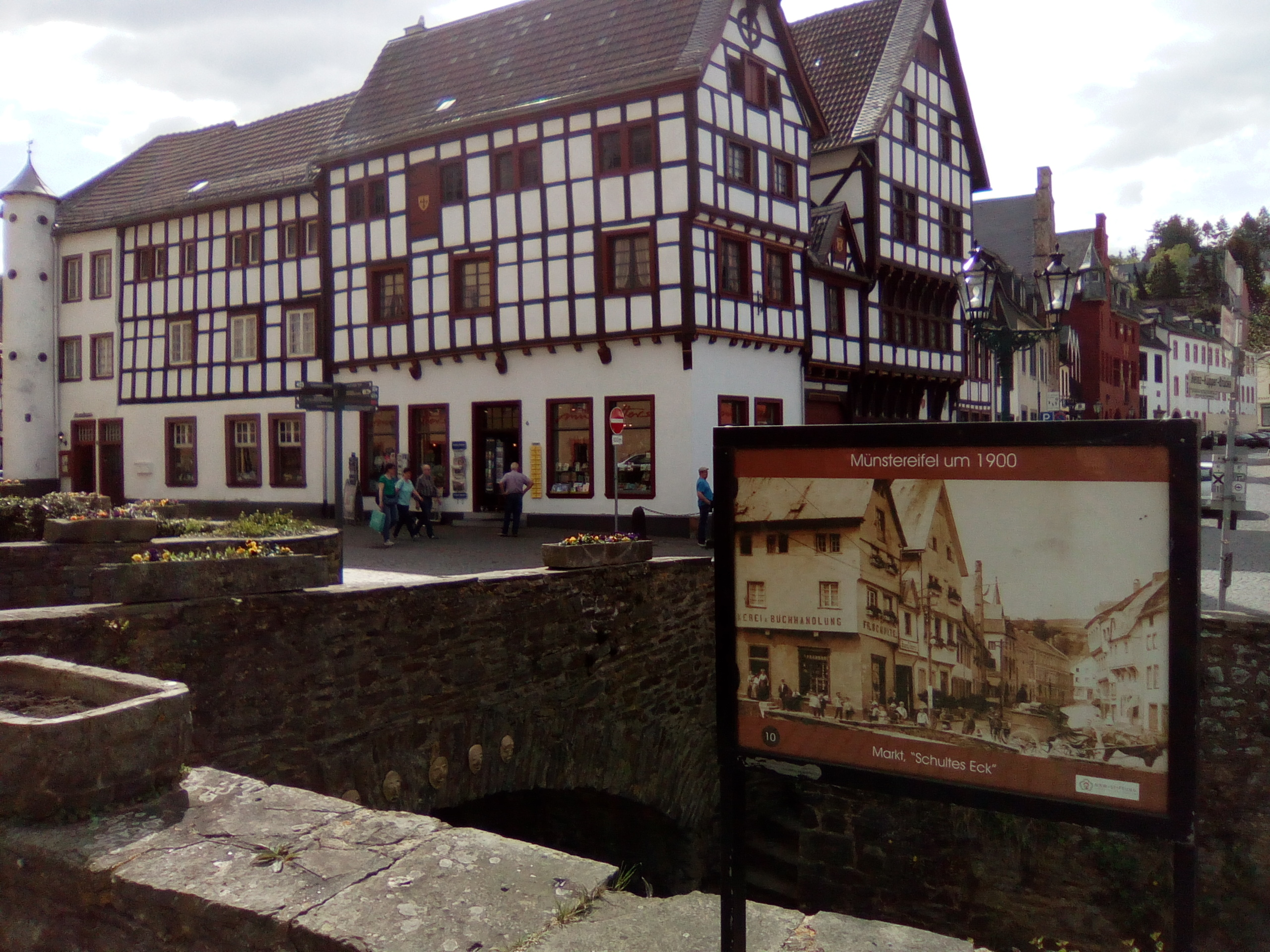 History trail "Münstereifel um 1900", Table 10